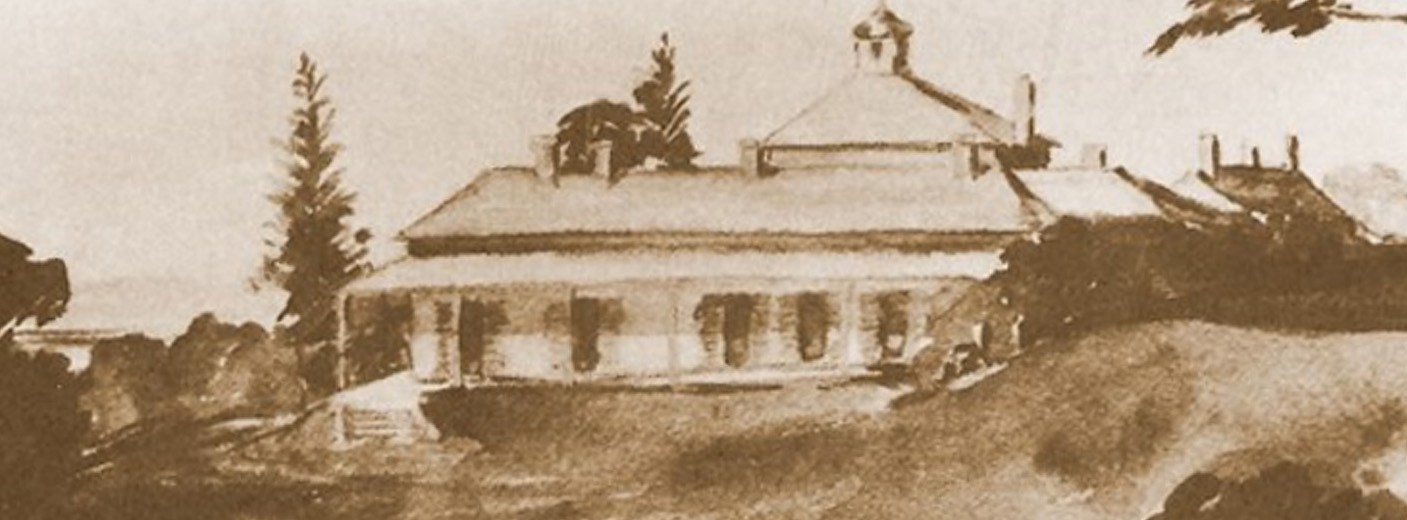 Watercolor of Lake Innes House circa 1850